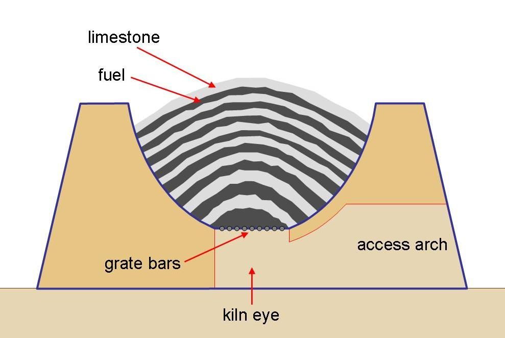 Diagram of simple batch limekiln as used for small scale manufacture before 1900.